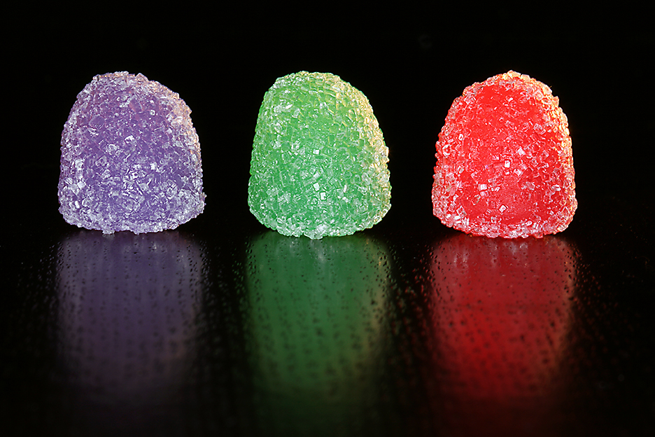 these guys didn't last long after my impromptu photo shoot with them. You HAVE to look at this one large on black - click here 'glowing gumdrops' On Black sometimes simplicity can be the most rewarding experience in photography. i had more fun setting this shot up than trying to run around out in the world finding the perfect flower, lion, etc. to shoot. of course that could have been because of the intense sugar high i was on by the end of it... i took this in my dark dining room with a canon 100mm 2.8 usm macro lens with a canon macro ring light mr-14ex flash. i had a flashlight shining on the gumdrops from behind - boosting the reflection. i thought the texture of the dining room table came through nicely. On June 7 this reached #121 on Explore - thanks!